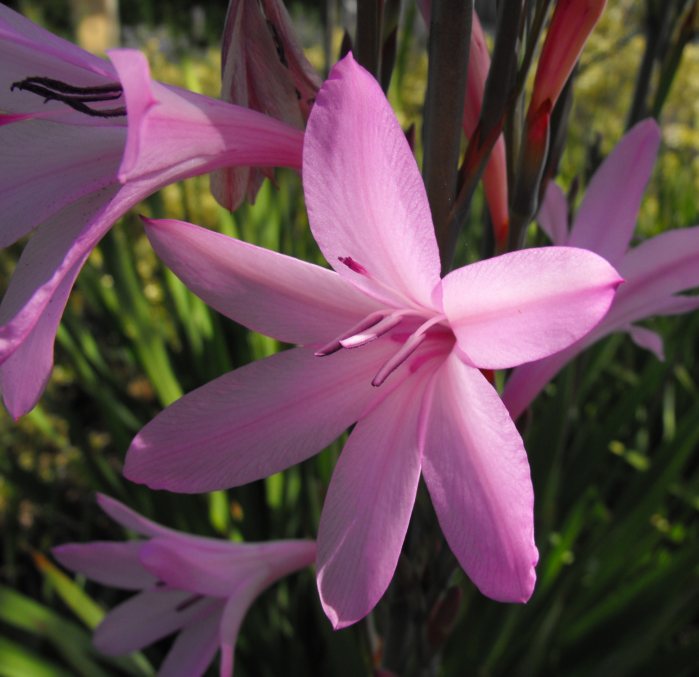 Watsonia borbonica in the Water Conservation Garden at Cuyamaca College, El Cajon, California, USA. Identified by sign.